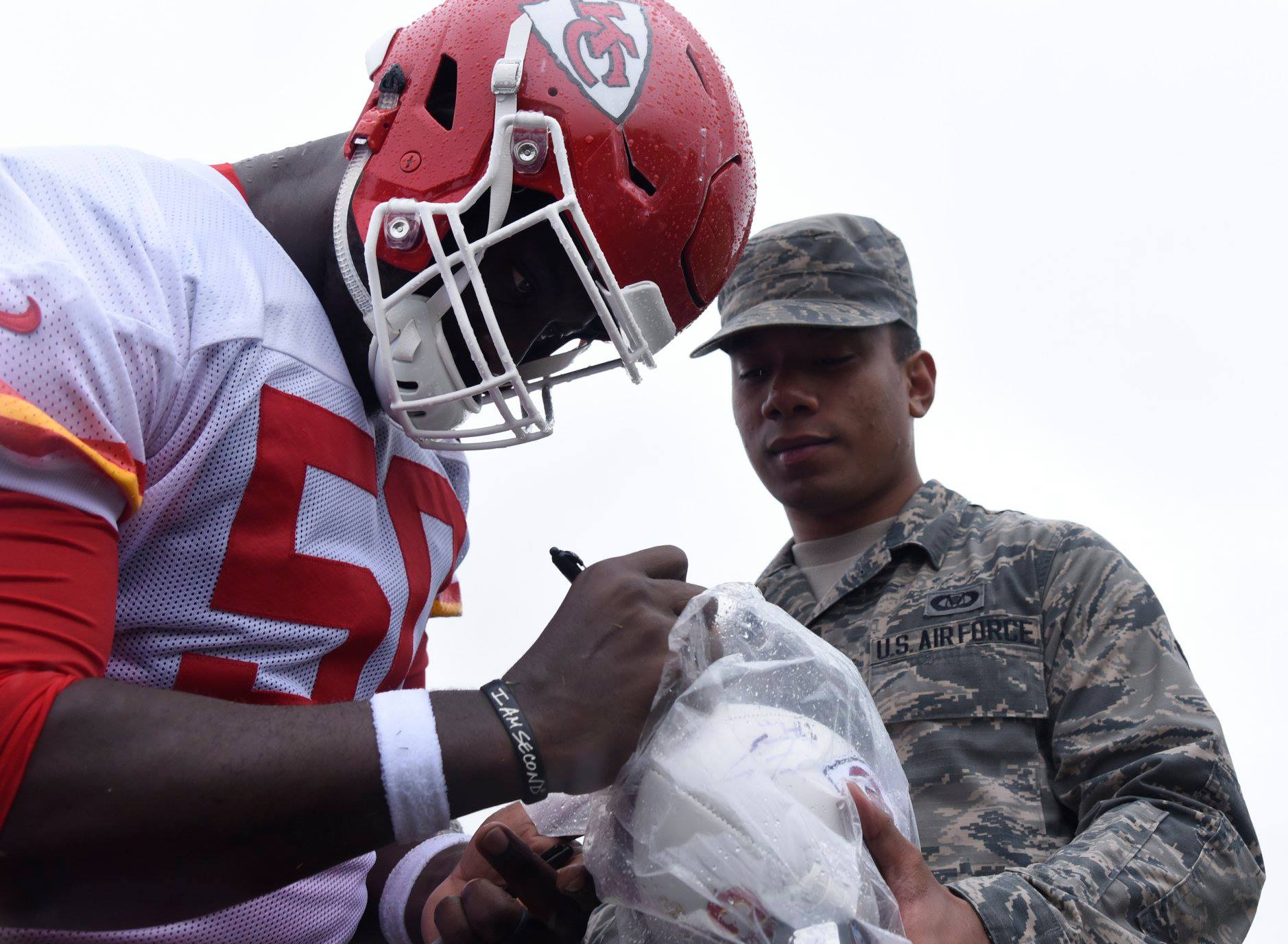 Kansas City Chiefs linebacker, Justin Houston, signs a football after military appreciation day at the Chiefs training camp in St. Joseph, Mo., Aug. 14, 2018. The Chiefs invited military members from across Kansas and Missouri to watch their final training camp practice as well as meet and greet the players.